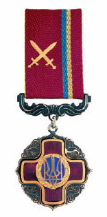 Ukrainian National Award - the order "For Merit" (3nd degree with swords)